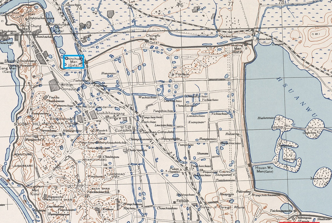 Map of Nanjing, China.Printed by the British War Office / US Army Map Service.